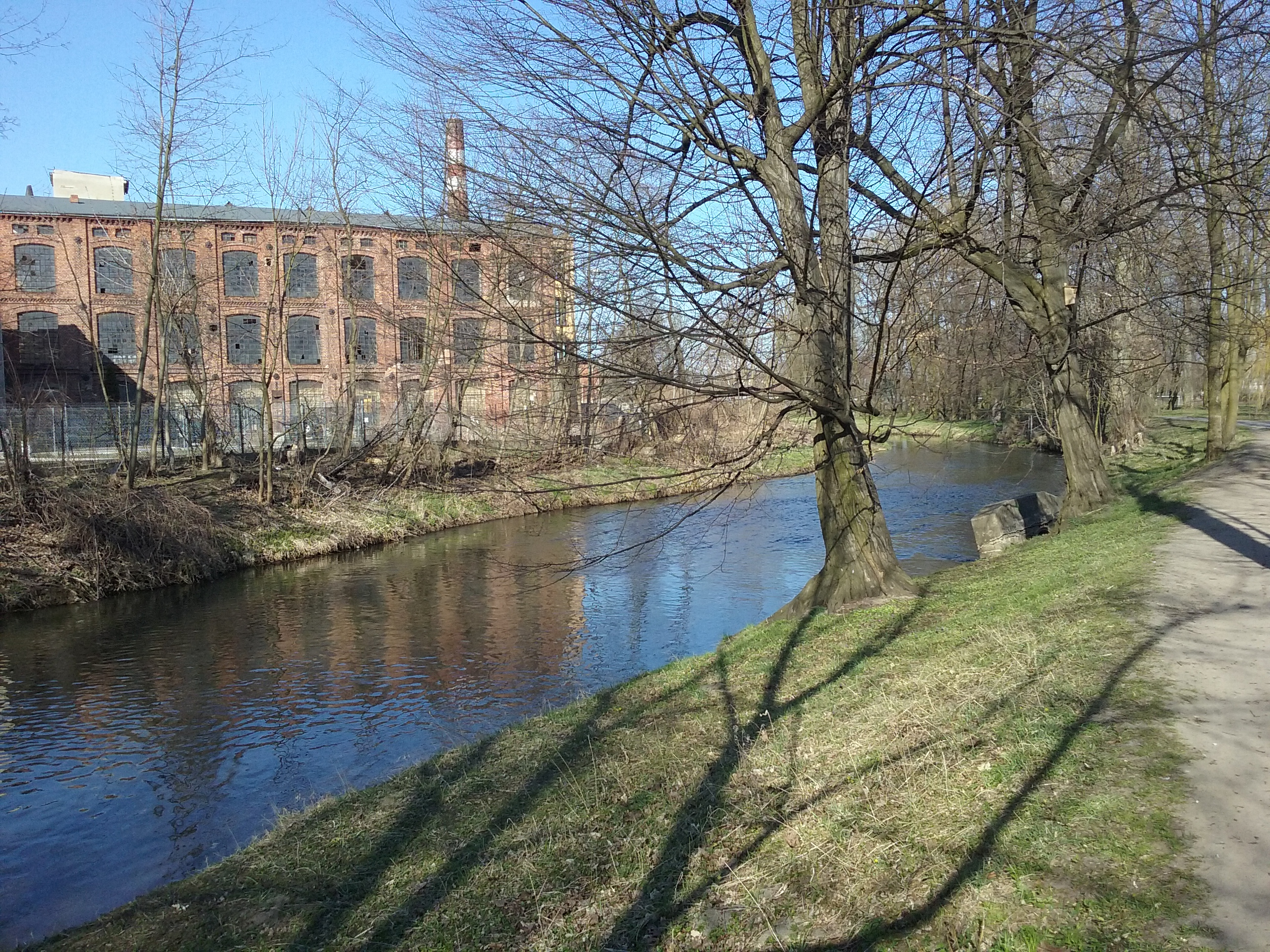 Wolbórka river in the "Solidarity" City Park in Tomaszów Mazowiecki